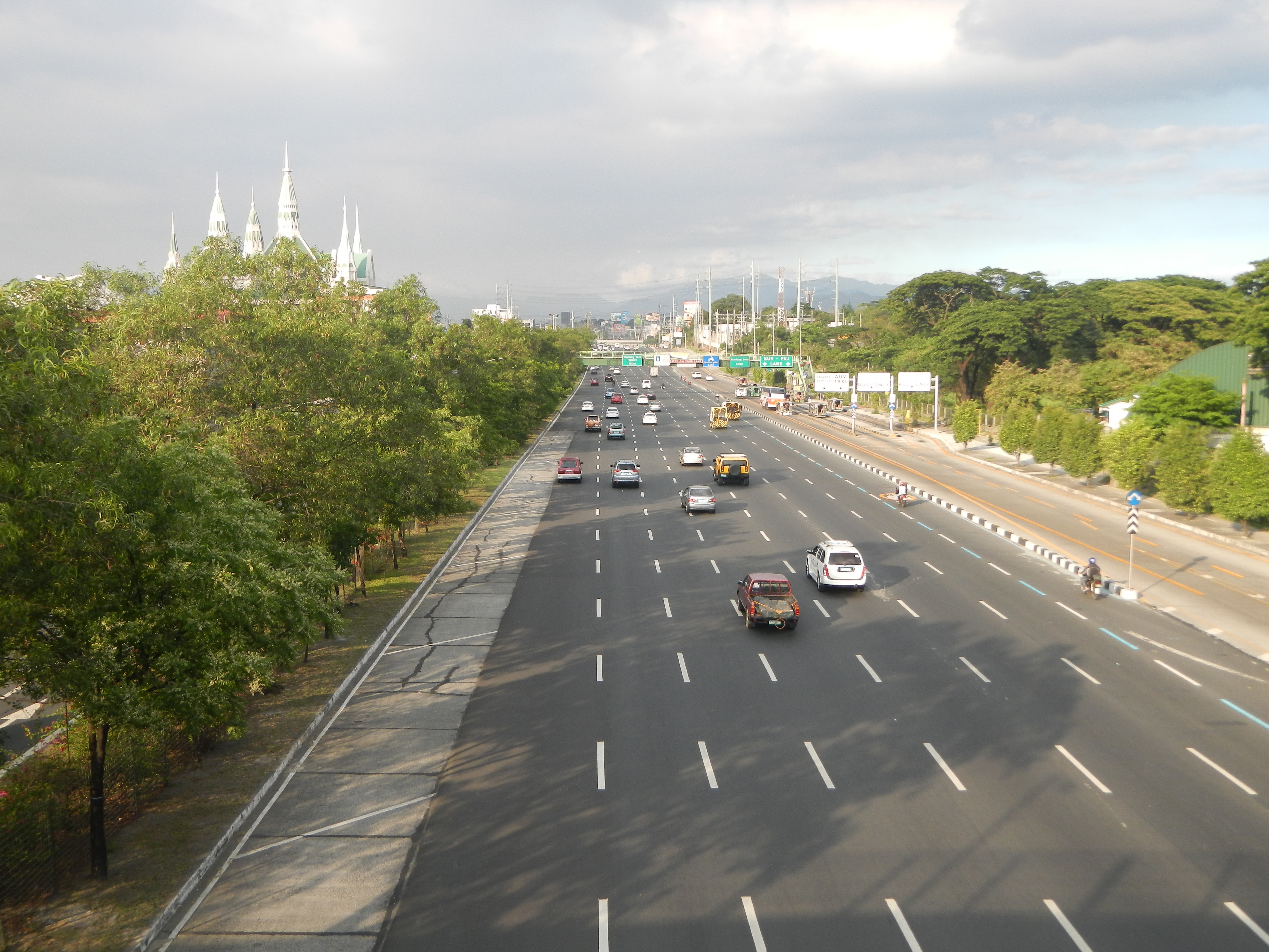 View from the Foot Bridge of Commonwealth Avenue, Quezon City[1](Tagalog: Abenida Komonwelt), formerly called as Don Mariano Marcos Avenue, named after the father of President Ferdinand Marcos, is a 12.4 km (7.7 mi) highway located in Quezon City, Philippines which spans from 6 to 18 lanes and known as the widest in the Philippines. It is one of the major roads in Metro Manila and is designated as part of Radial Road 7 (R-7). The Commonwealth Avenue starts from the Quezon Memorial Circle inside the Elliptical Road, it passes through the areas of Philcoa, Tandang Sora, Balara, Batasan Hills and ends at Quirino Highway in the Novaliches area.